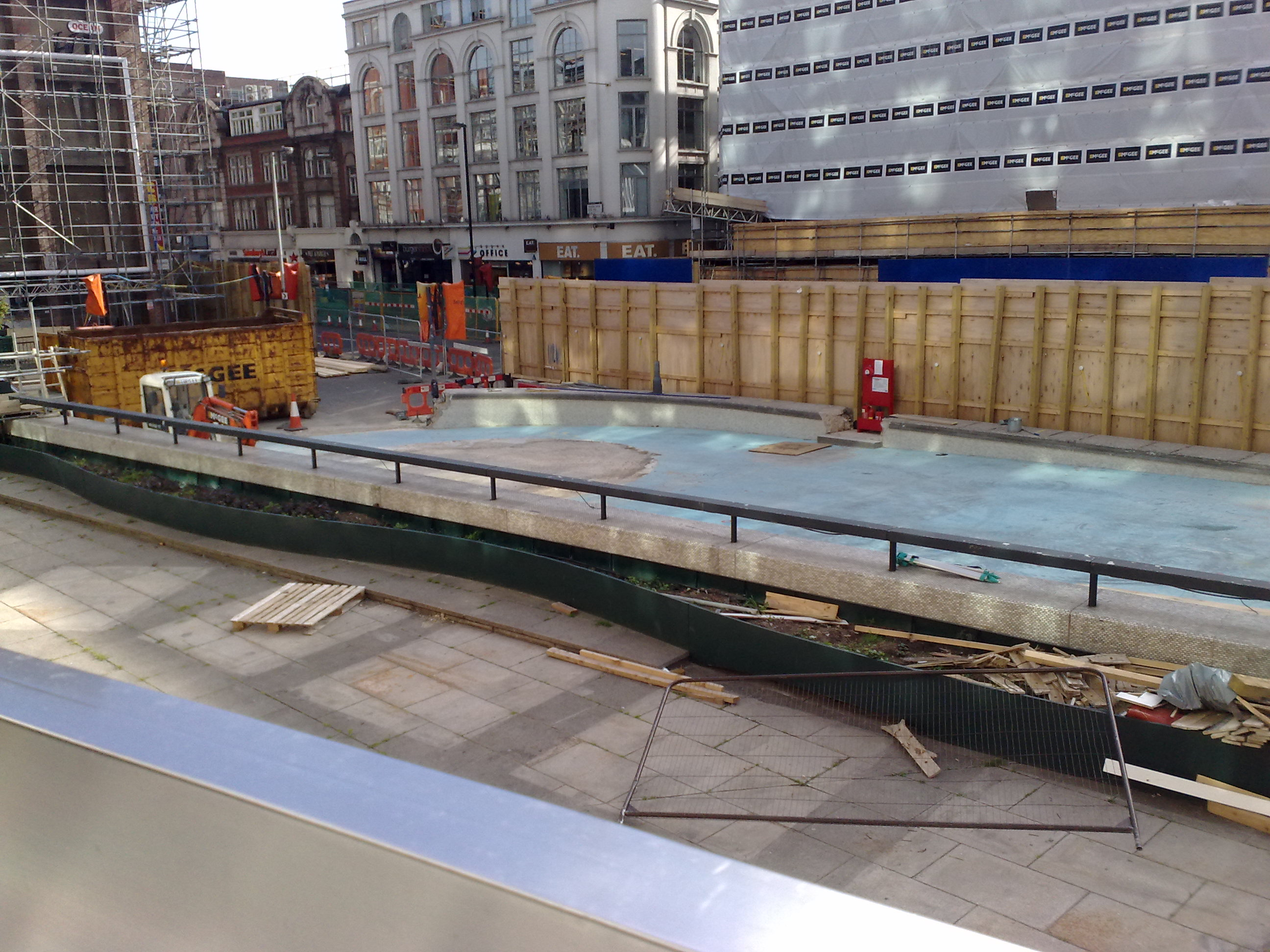 Centre Point fountains and plaza are being demolished as part of the works at Tottenham Court Road for Crossrail. This photo shows that the fountains themselves have been removed. Behind, the Astoria theatre music venue is covered in sheeted scaffolding, prior to demolition.